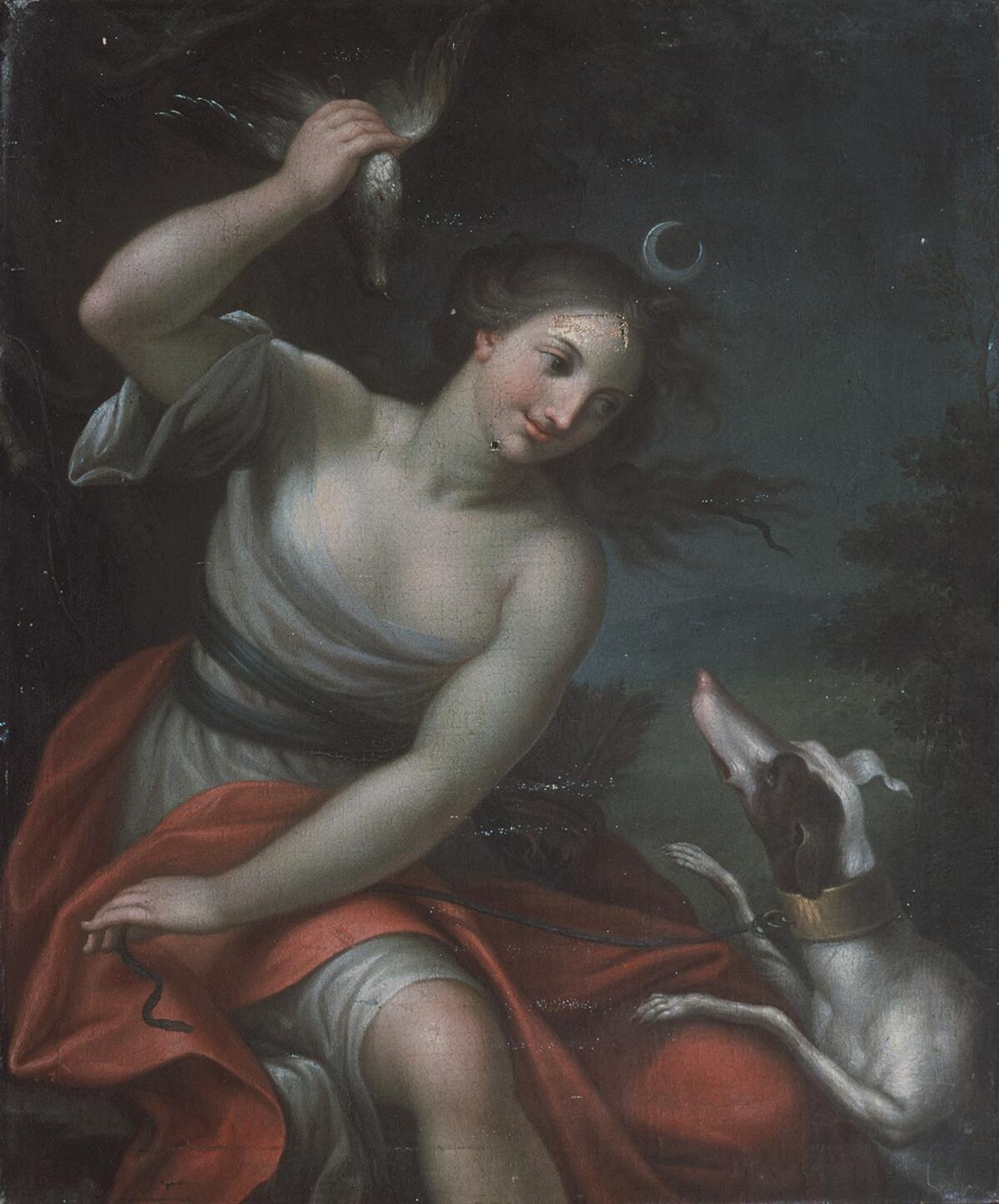 A painting from the Framed Works of Art collection at the National Library of wales.